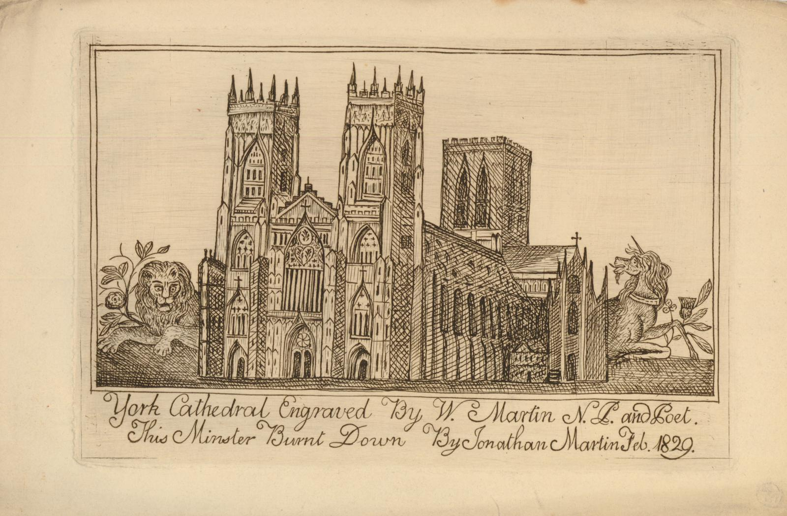 View of York Cathedral, the entrance at left, flanked by a lion at left, lying next to a rose bush, and a unicorn at right, its head turned back towards the minster, lying next to a thistle and shamrock. Engraving, printed in brown ink